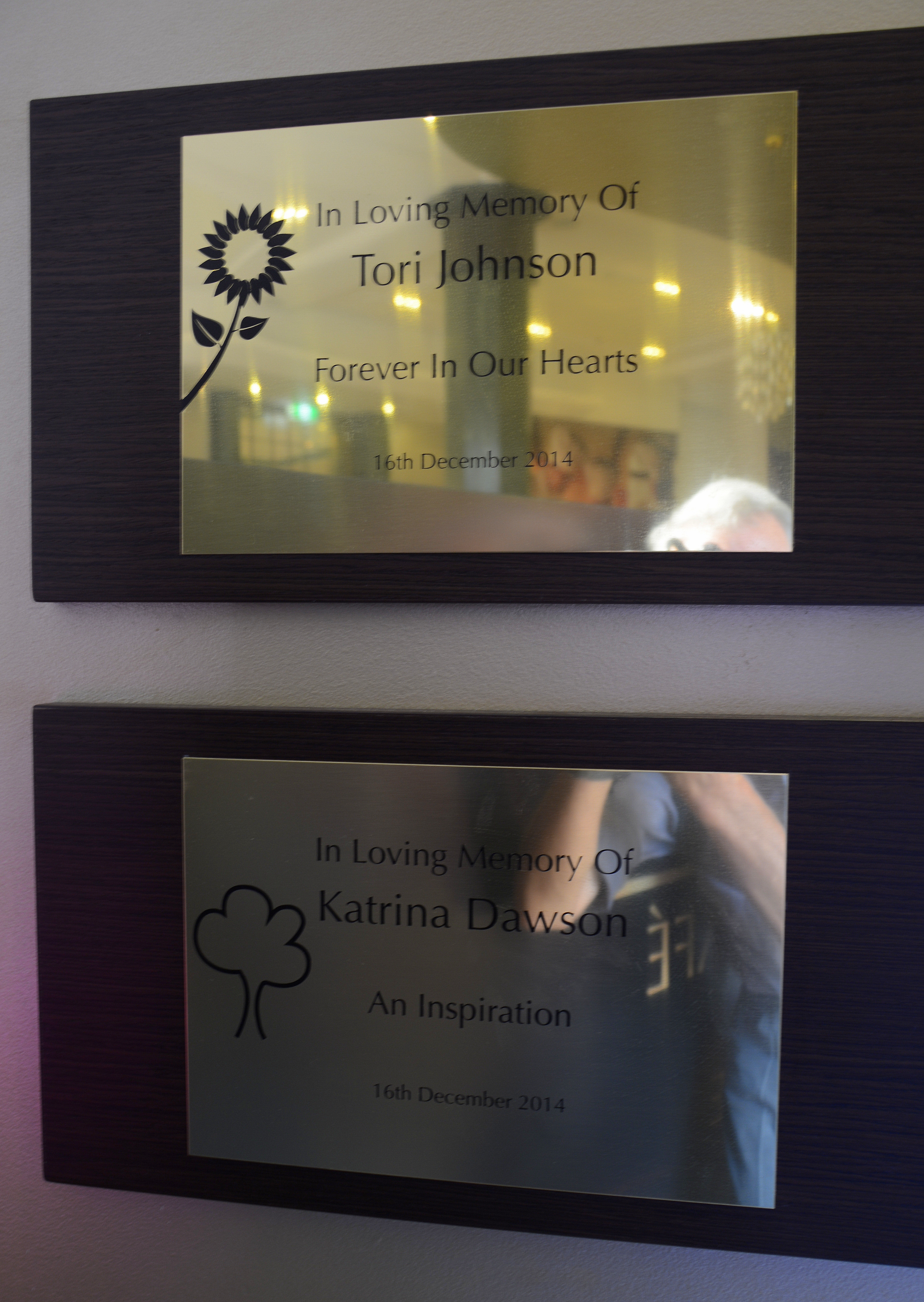 Plaques in Lindt Café, Martin Place, Sydney, honouring the two victims of the siege on 16 December 2014